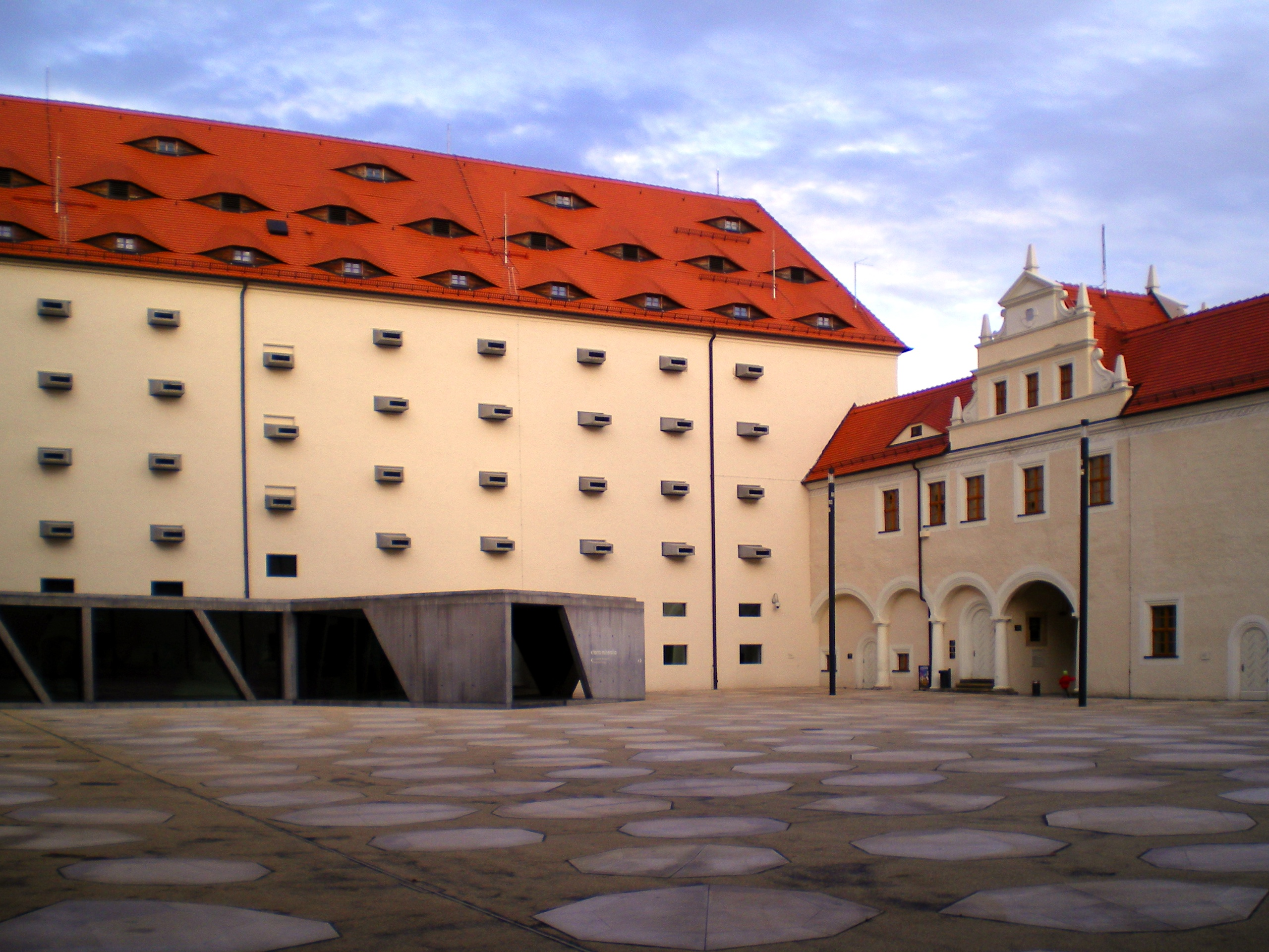 Castle "Freudenstein" in Freiberg/Saxony